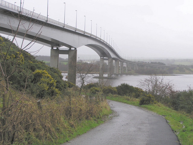 A view of Foyle Bridge, Londonderry, from underneath.